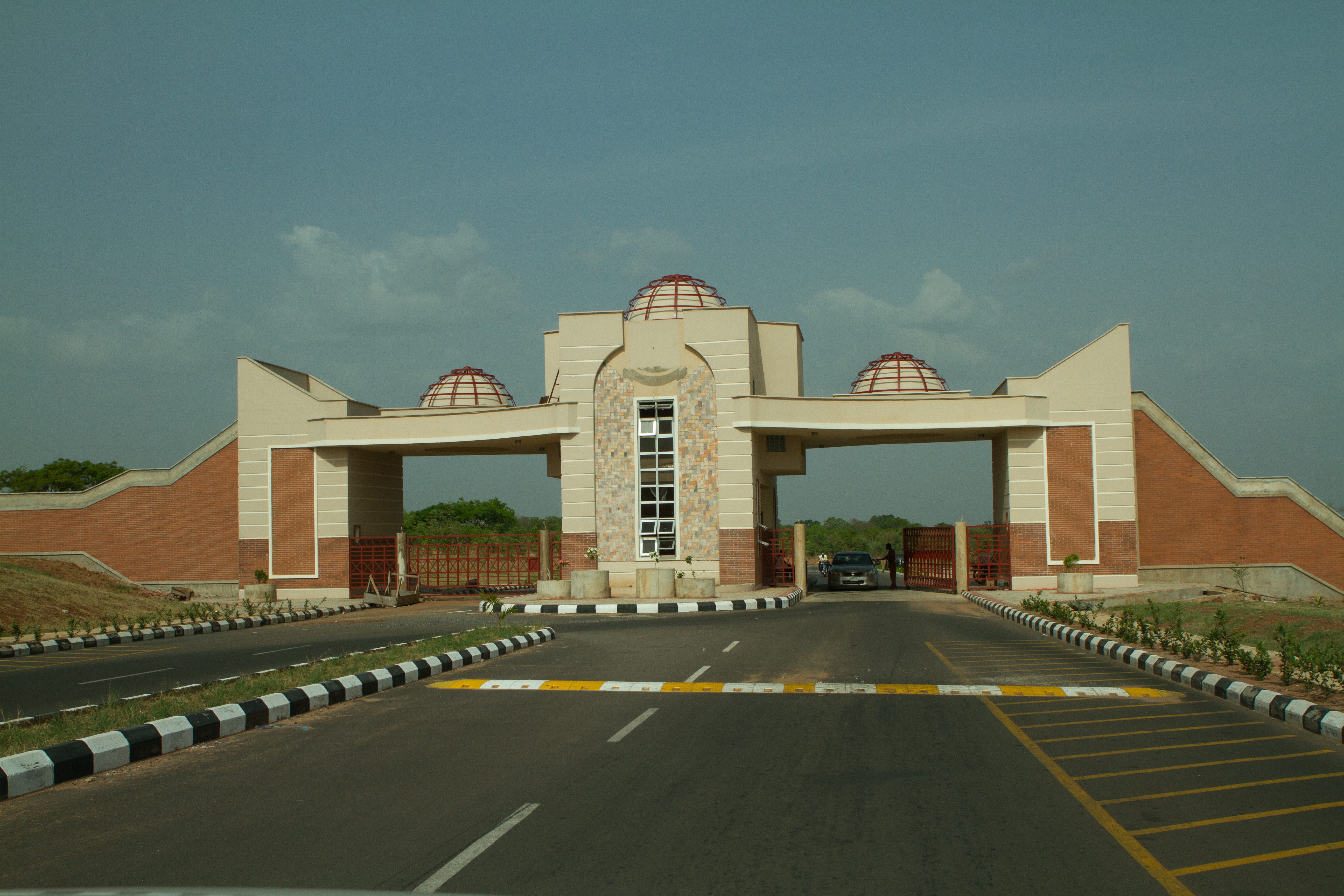 Kwara State University entrance